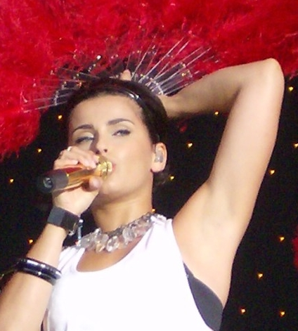 Nelly Furtado, live in Amsterdam, July 7, 2008